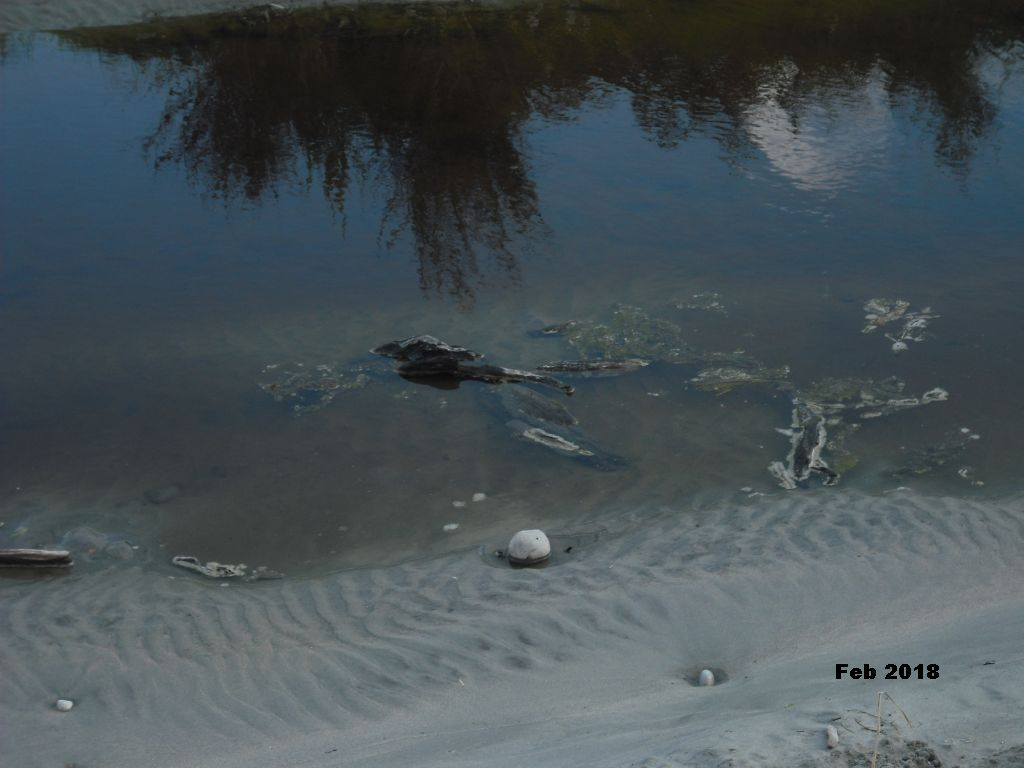 Dairy discharge creating water pollution